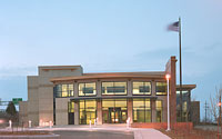 Kansas City Science and Technology Center, U.S. Environmental Protection Agency (EPA), Kansas City (Kansas). Opened May 9, 2003.